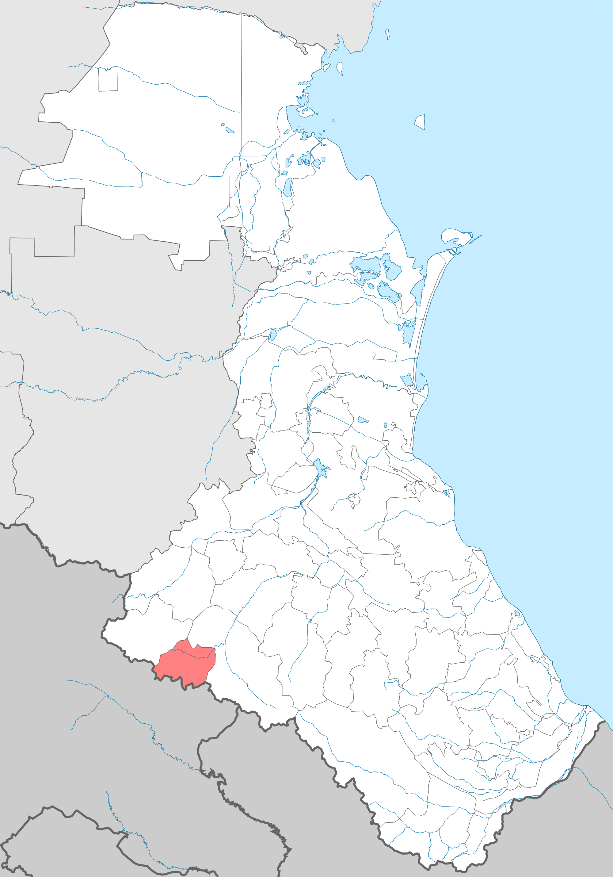 Map Bezhtinskogo area of Dagestan